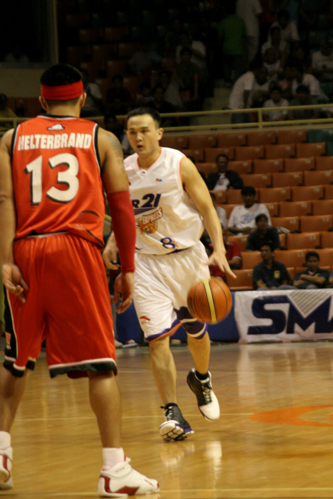 Jayjay Helterbrand defending Gec Chia